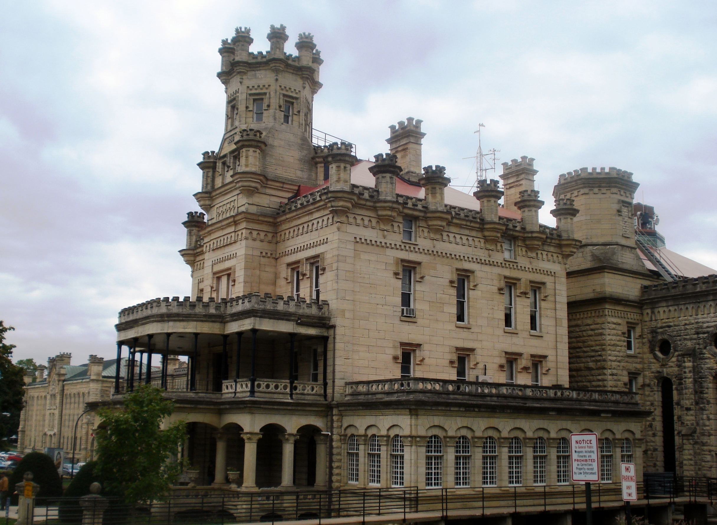 Built in Anamosa, Iowa in the year 1901 using Anamosa Limestone from the nearby quarries in Stone City. Is on the National Register of Historic Places Object location42° 06′ 41″ N, 91° 17′ 27″ W